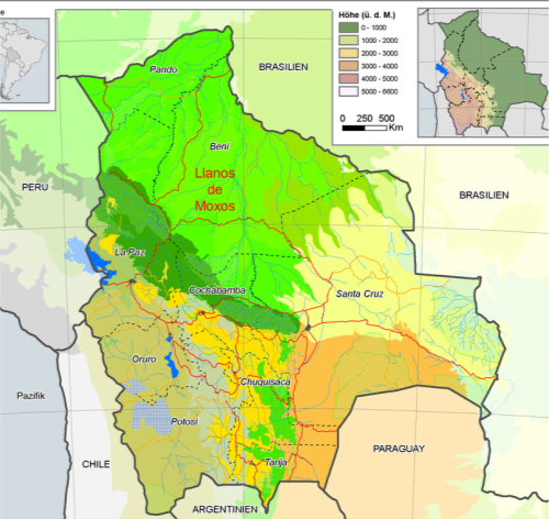 A map of Bolivia highlighting the LLanos de Moxos 4. I cropped a map of Bolivia already posted on Wikimedia as LLanos de moxos.jpg to obtain this image..